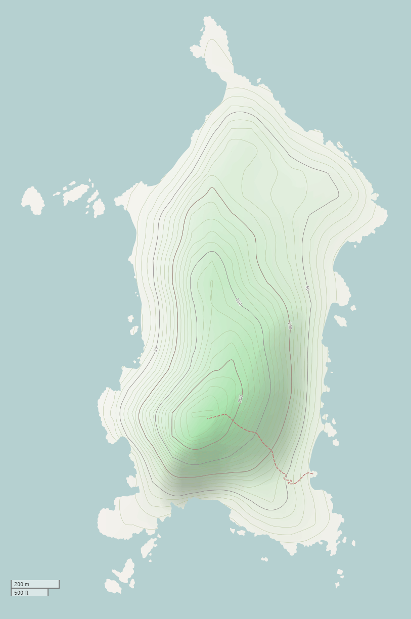 Topographic map of Kuba Island, Zamami, Okinawa.